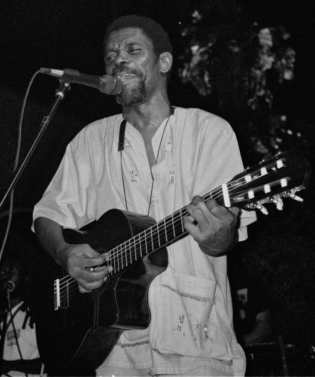 Manno Charlemagne, photo probably taken at his Stephen Talkhouse performance on Miami Beach.